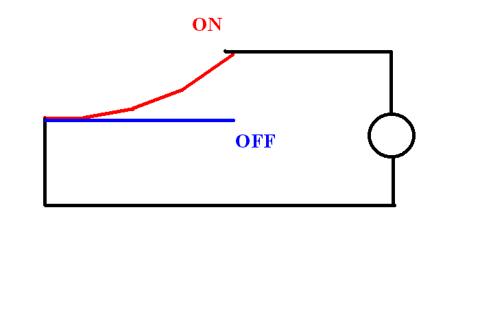 Diagram of a simple bimetallic thermostat